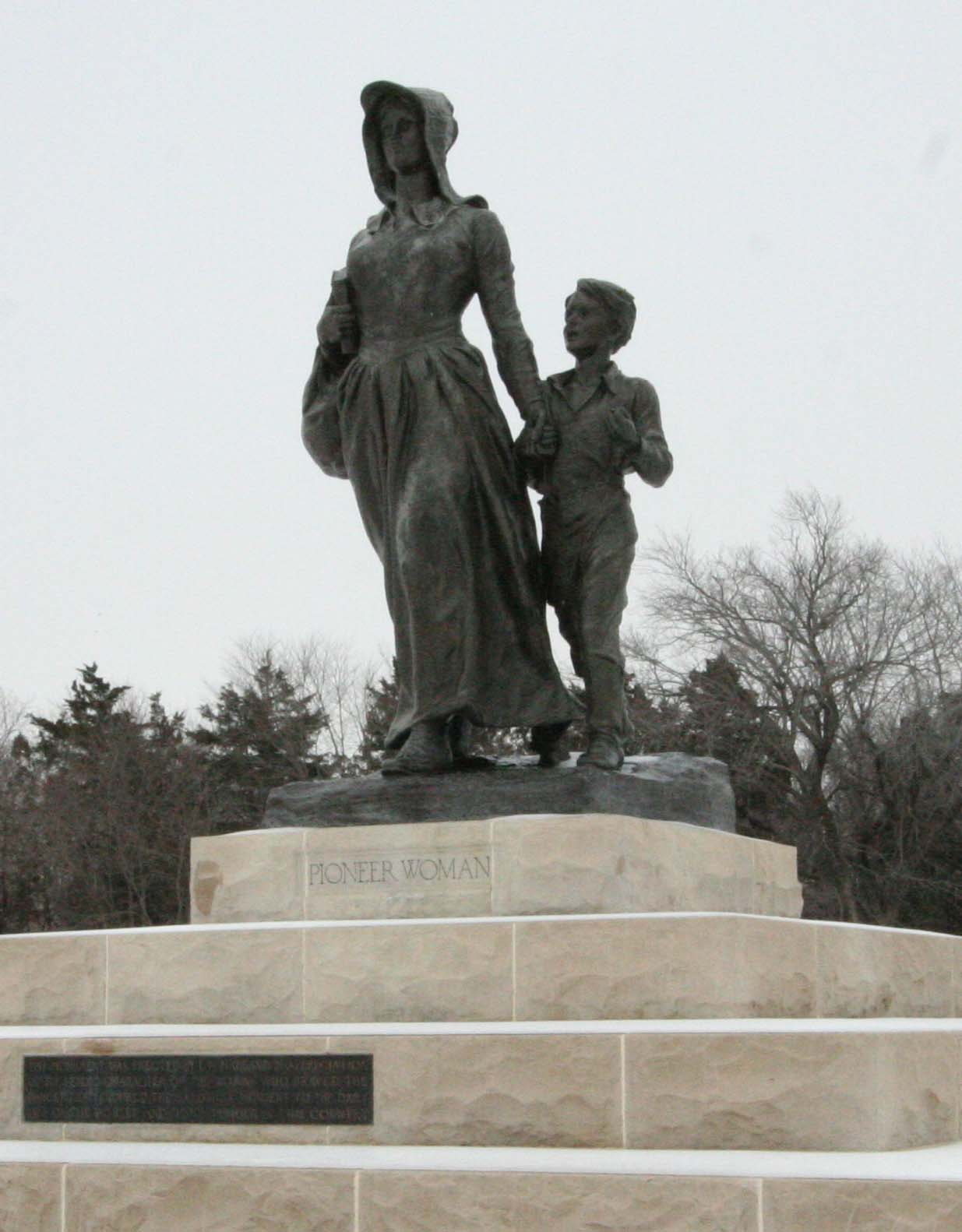 This is my photo of the Pioneer Woman Statue in Ponca City Oklahoma at day